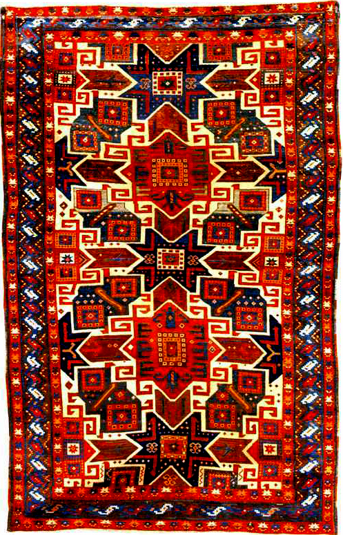 Star Kazak rug from Azerbaijan, type B, 19 century. Kazak is the region of Azerbaijan.